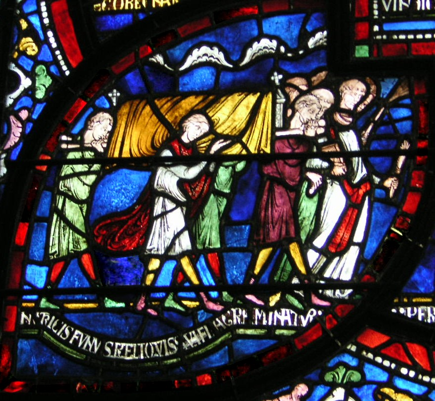 Canterbury Cathedral- stained glass window- detail showing Funeral procession